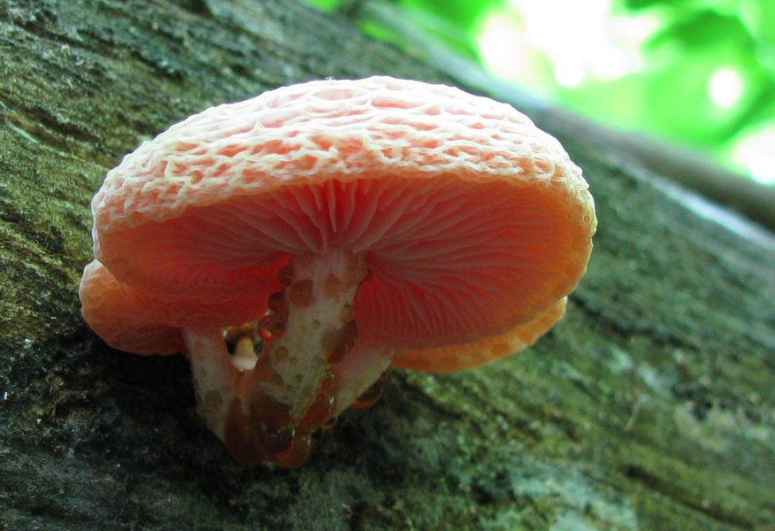 Rhodotus palmatus ((Bull.) Maire) Location: Wildcat Hollow, Wayne National Forest, Ohio, USA Notes: I can never remember the name of these beautiful pink mushrooms.